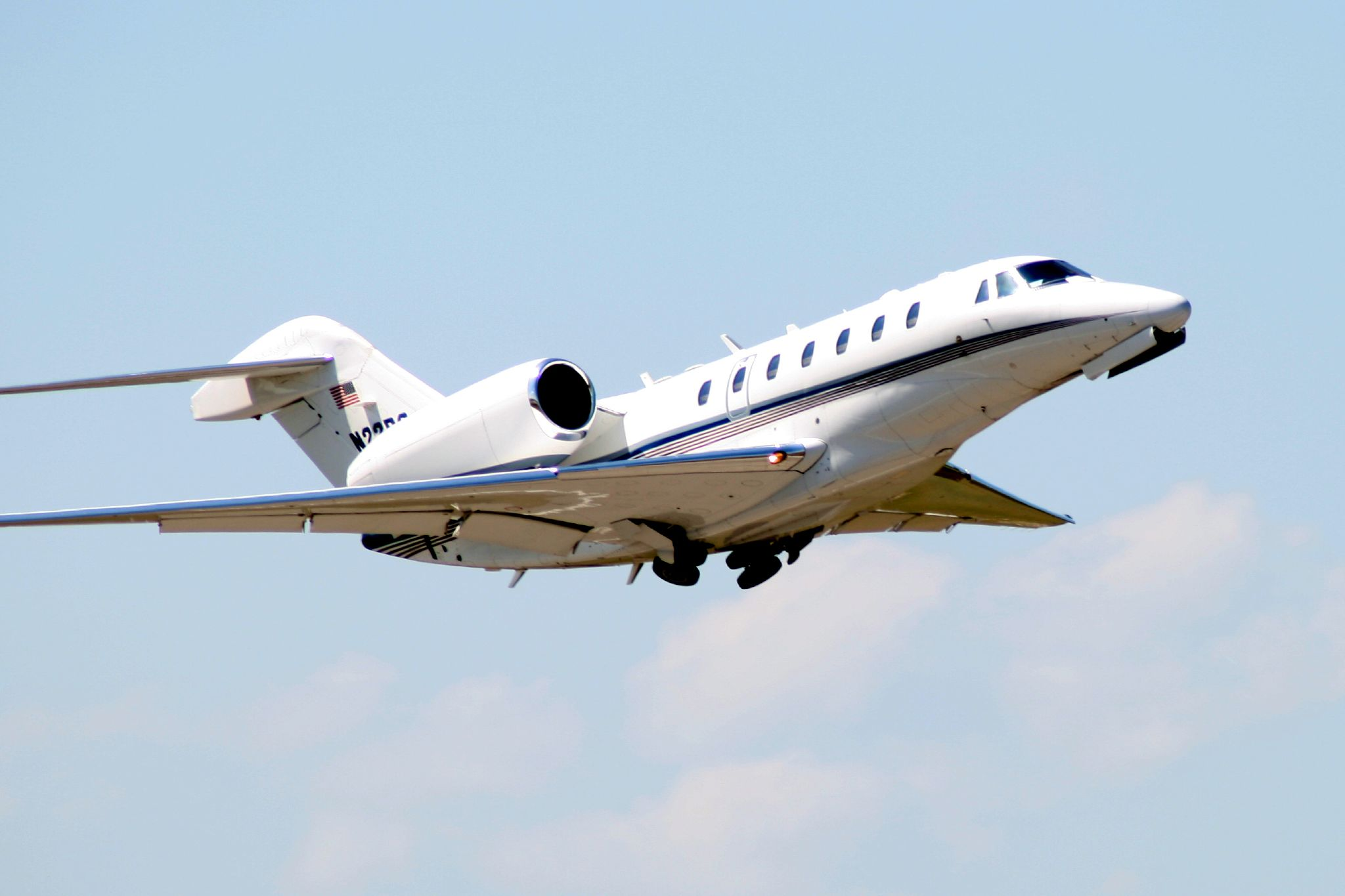 We got to the airport early so I sat under the Falcon's empanage with my Canon...